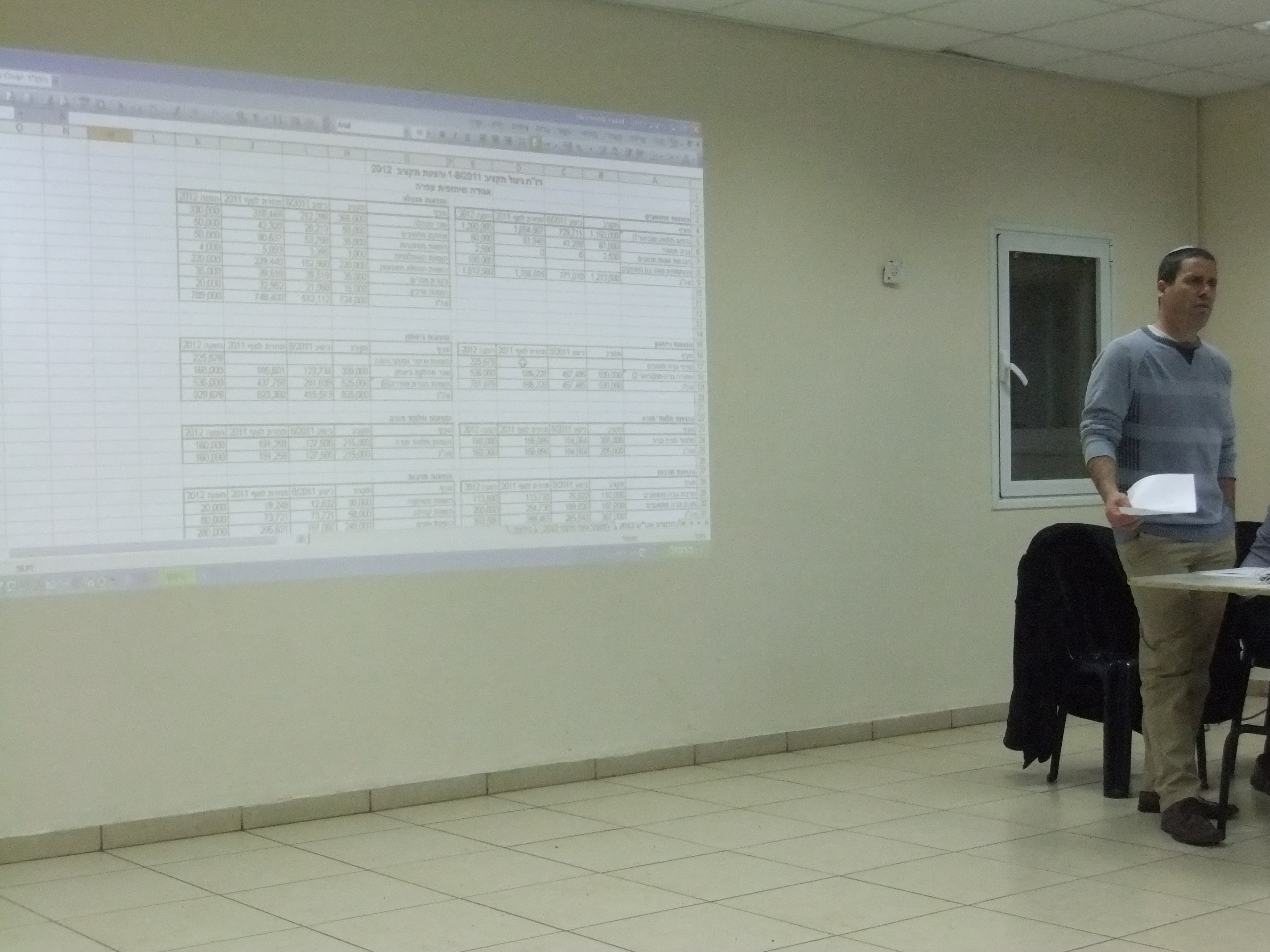 Mazkir of Ofra presenting the 2012 budget in annual member gathering